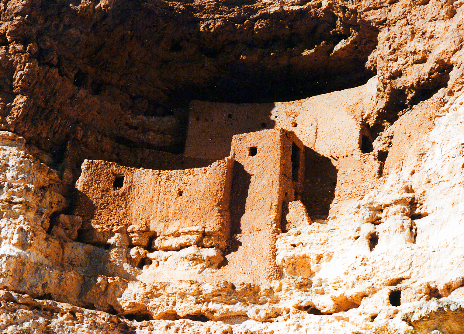 This is not a castle, and it has nothing to do with Montezuma. It is a four storey house built by the Sinagua tribe about 1400 CE. It is on the road between Flagstaff and Phoenix. The disappearance of the cliff dwelling peoples was probably due to exhaustion of water supplies Visited during Felicity and Phillip's Washington DC to San Diego road trip in 1996.